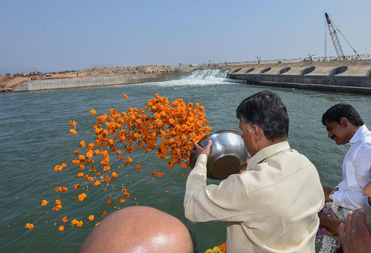 Andhra Pradesh CM N.ChandraBabu Naidu during trial run at Pattiseema